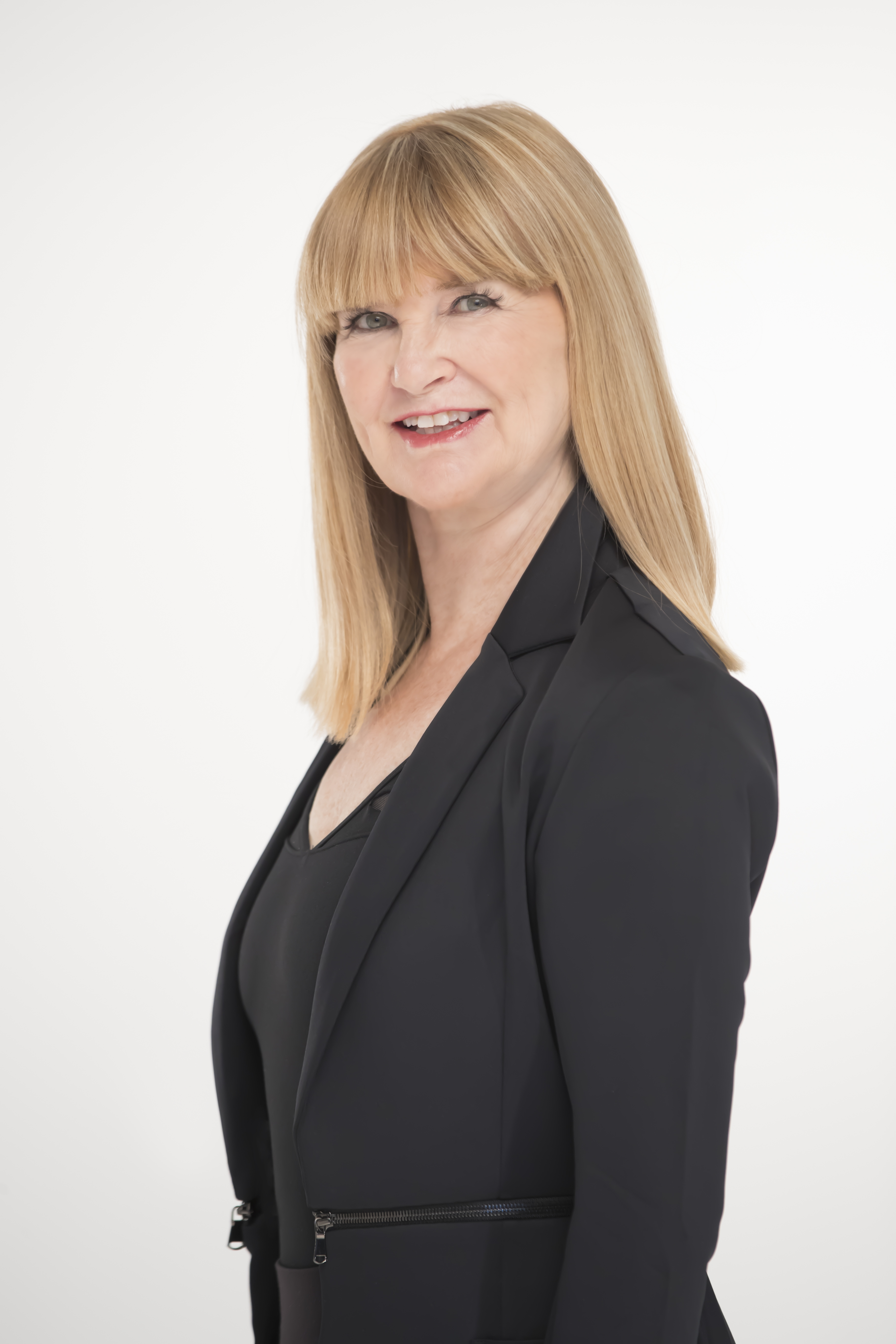 Free publicity photo for Miranda Esmonde-White